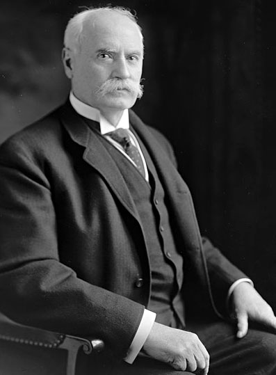 Nelson W. Aldrich, US Senator and Representative from Rhode Island